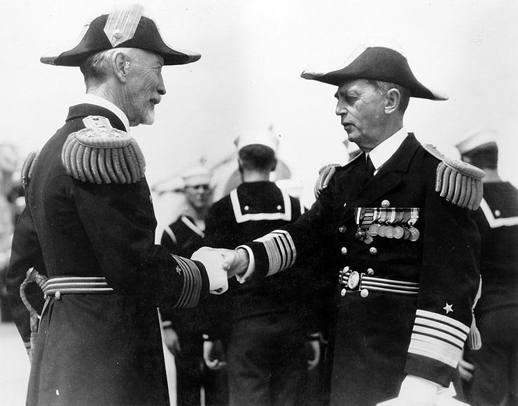 Admiral William D. Leahy (right)shakes hands with Admiral Joseph M. Reeves(left) during change of command ceremonies. NHC description said photo was taken during Admiral Leahy relieved Admiral Reeves as Commander, Battle Force, U.S. Fleet (COMBATFOR), 30 March 1936, but Reeves left the post on 15 June 1934, and was Commander-in-chief, U.S. Fleet between 26 February 1934 and 24 June 1936. Proper description would be Reeves congratulating Leahy as the new COMBATFOR, relieving Admiral Harris Laning (COMBATFOR 1 April 1935 - 30 March 1936).